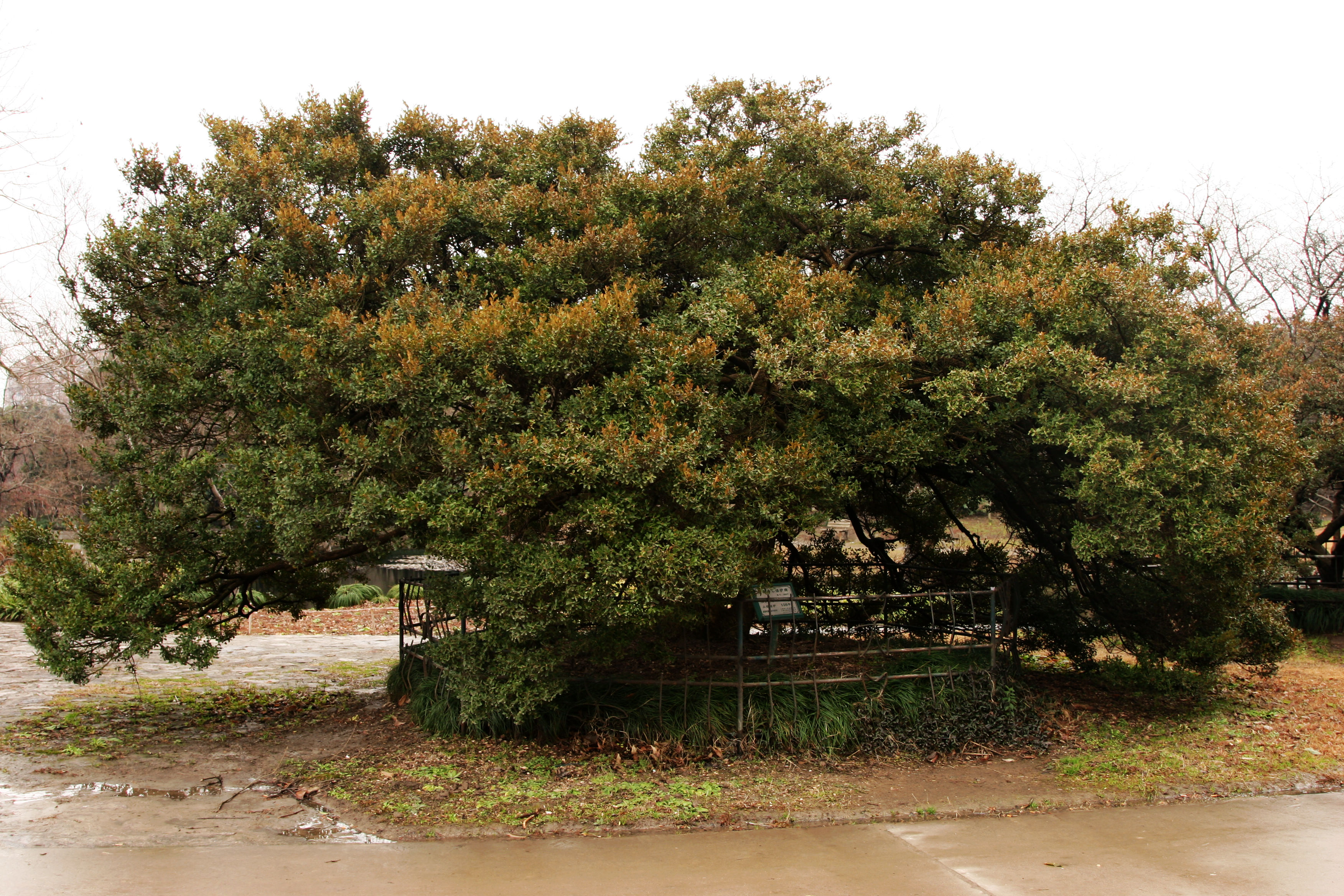 Buxus sinica